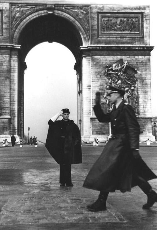 Title: Paris, vor dem Truimphbogen Factual corrections and alternative descriptions are encouraged separately from the original description. Additionally errors can be reported at this page to inform the Bundesarchiv. Original historic description: Paris. "Der Kontakt" Vor dem Triumphbogen in Paris: Ein französischer Polizist grüßt deutsche Offiziere.Prop.-Kop. 612